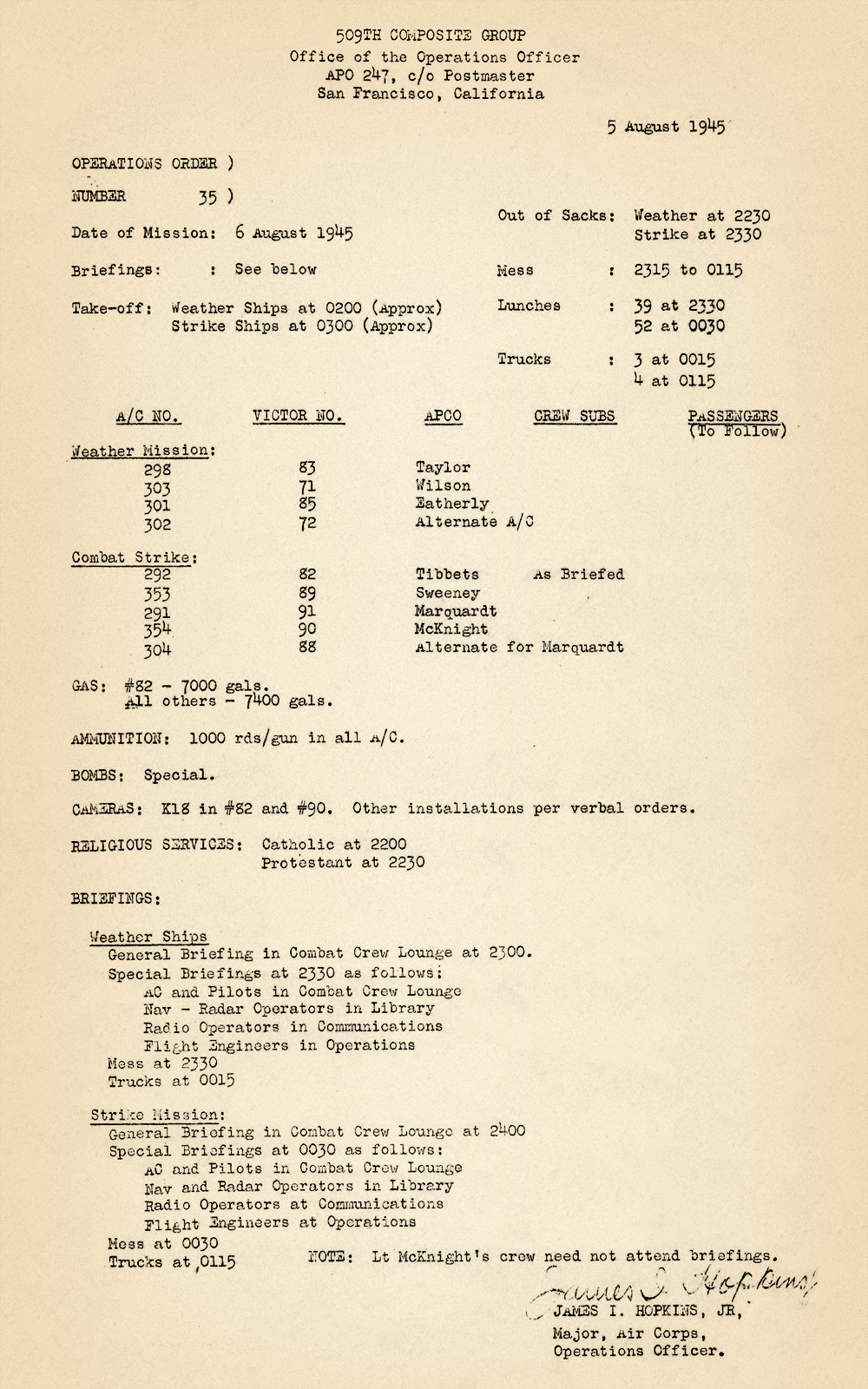 Strike order for the Hiroshima bombing, as posted on Tinian Island. Photo by Harold Agnew (as U.S. Gov't employee) 1945